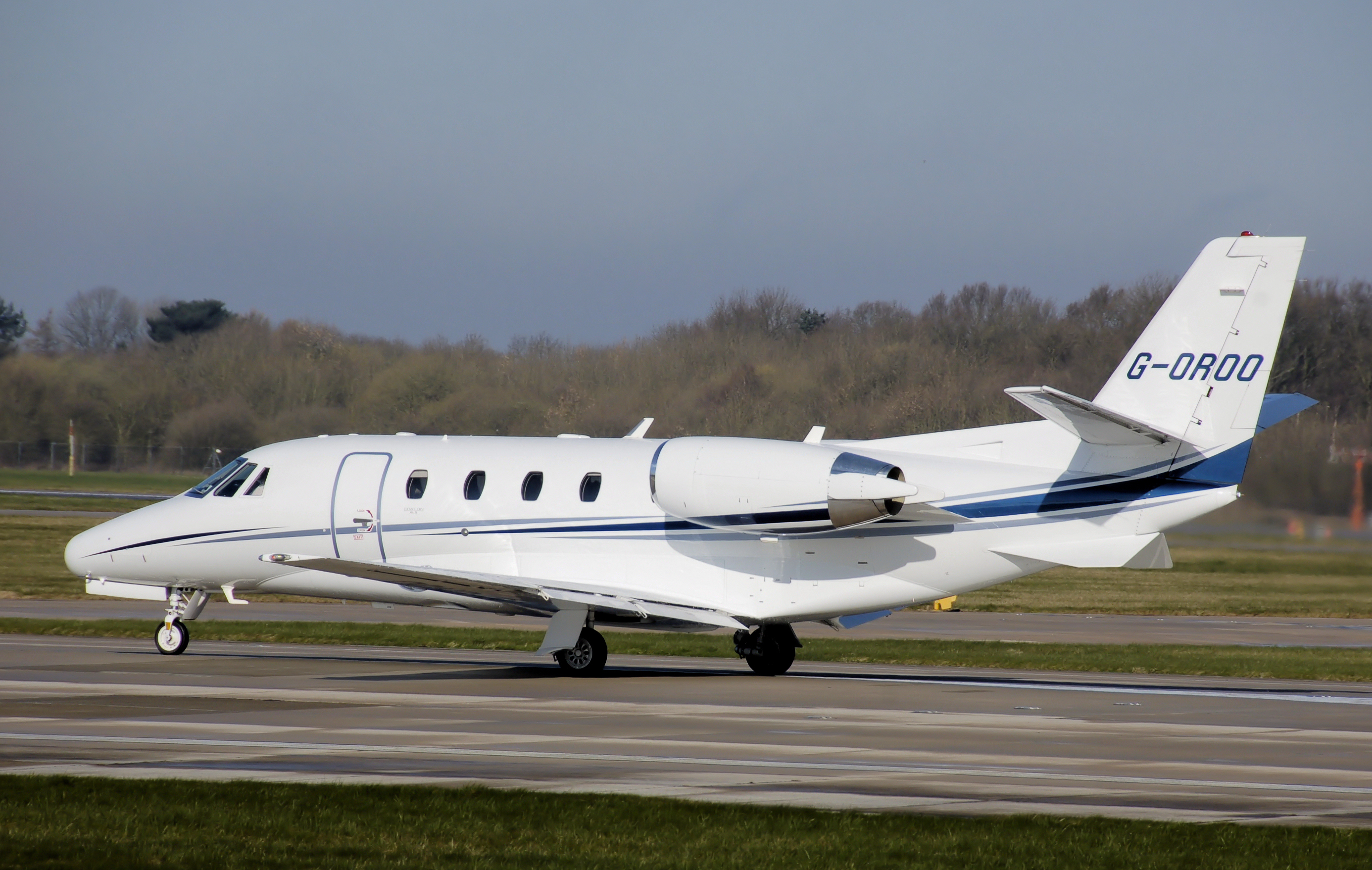 Cessna Model 560XL Citation XLS business jet (G-OROO) taxis for takeoff at Manchester Airport, England.